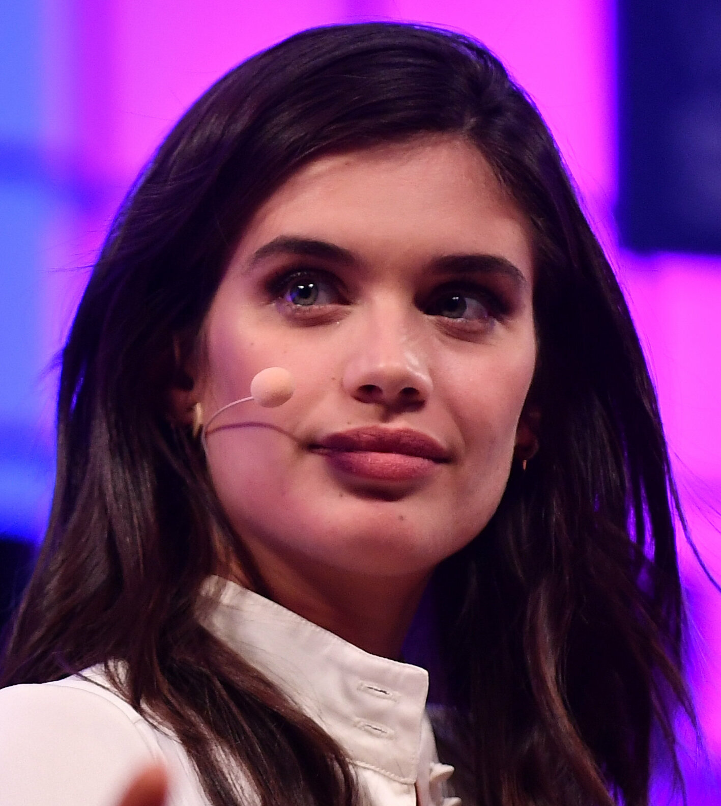 9 November 2017; Rosario Dawson, left, Actress & Founder, Studio 189, and Sara Sampaio, Model, Victoria's Secret, on the Centre Stage during day three of Web Summit 2017 at Altice Arena in Lisbon. Photo by Sam Barnes/Web Summit via Sportsfile